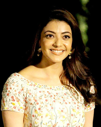 Kajal Aggarwal snapped on (5 February 2017) at 'Lakme Fashion Week 2017'